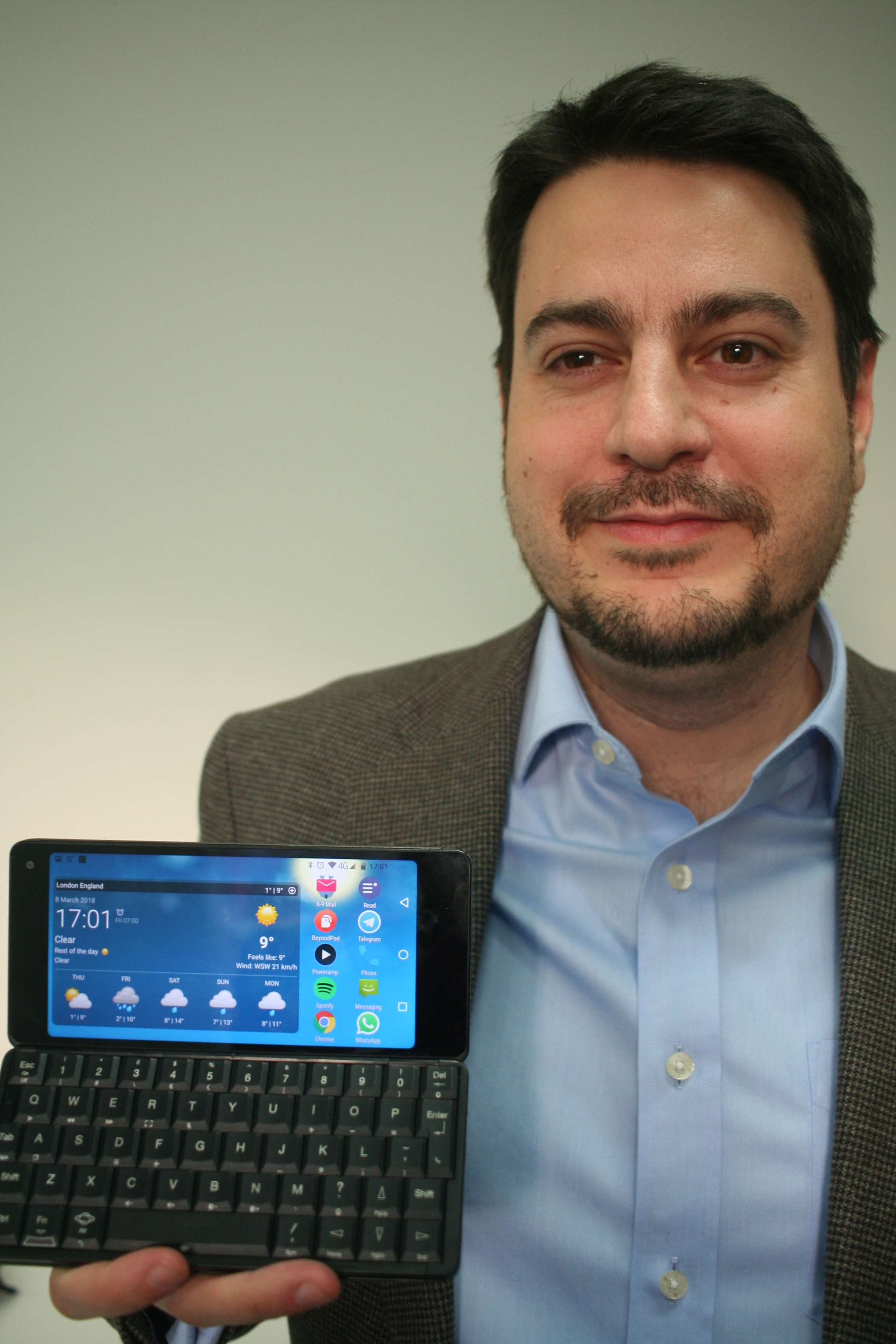 Gemini (PDA) made by in 2018 Planet Computers with a similar physical keyboard to the Psion Series 5. Dr Davidi Guidi (CTO) at Planet Computers office in London.